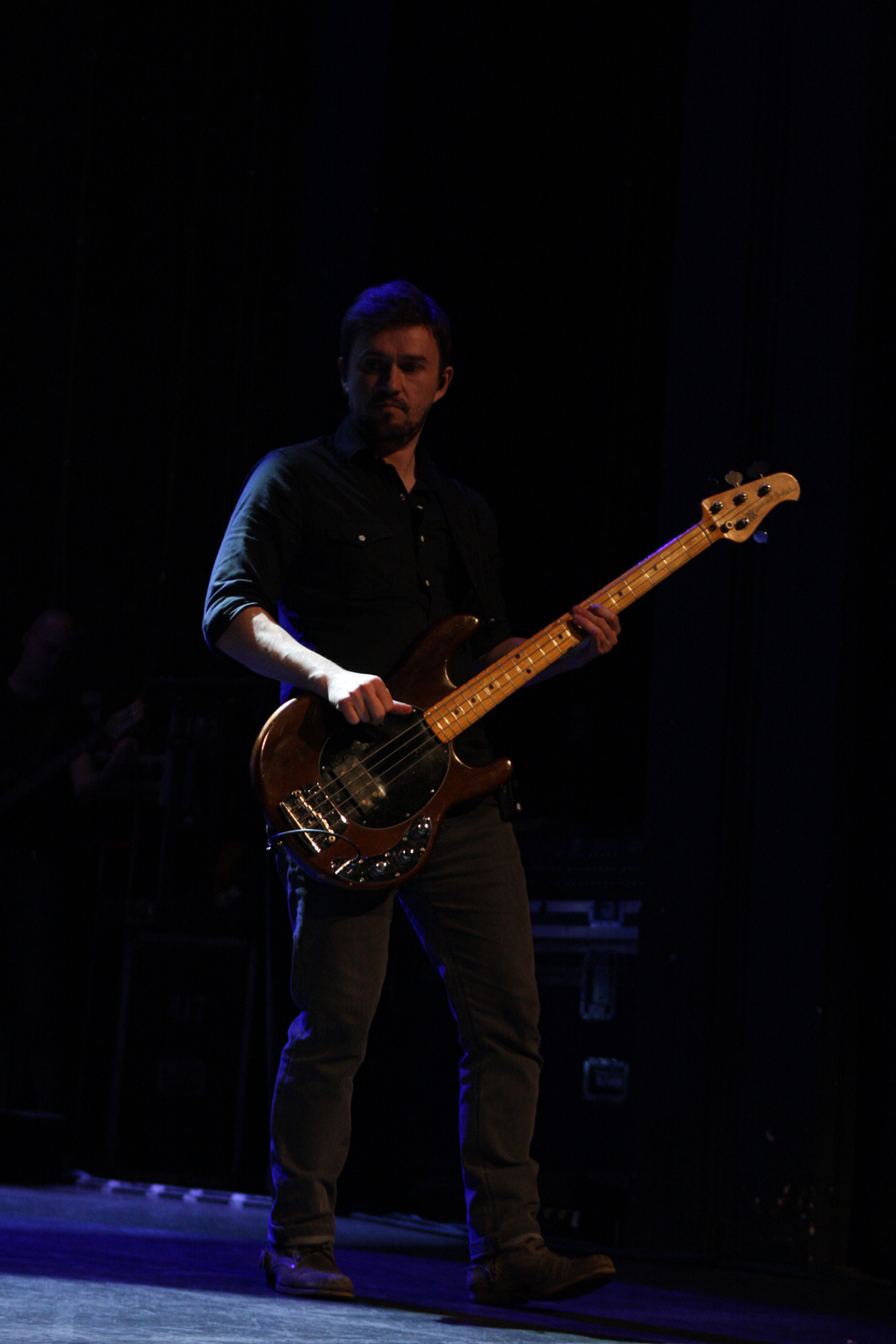 The Cranberries Enmore Theatre, Sydney Tonight The Cranberries perform tonight at Sydney's famous Enmore Theatre. The iconic group is fronted by Dolores O’Riordan and lit up the charts around the world for more than a decade with classics such as Linger, Dreams and Zombie. They have sold more than 30 million albums and have had two number one albums in Australia, No Need To Argue (1994) and To The Faithful Departed (1996). Other live favourites include Free To Decide, When You’re Gone, Salvation, Ode To My Family and Ridiculous Thoughts. They’ve performed to millions of fans across the globe including several appearances for the Pope. They’ve graced the cover of Rolling Stone and performed on Letterman and Leno. After taking a few years out to raise their families, THE CRANBERRIES release a new album, Roses, on February 27, the quartet’s first studio album since Wake Up and Smell the Coffee in 2001. THE CRANBERRIES are well known for their exceptional live performances. Dolores says “There’s something about playing with THE CRANBERRIES, it’s like putting on the pair of perfect shoes. It’s a chemistry. It just fits.” Popular Melbourne-based NZ reggae/roots/funk five-piece BONJAH will be the special guests. With over 500 Australian gigs under their belt and their second album, Go Go Chaos, hitting the charts last year, BONJAH will kick off the evening in fine style. Don’t miss your only chance to see The Cranberies perform their only Australian solo show. Websites The Cranberries Enmore Theatre McManus Entertainment Flourish PR Eva Rinaldi Photography Flickr Eva Rinaldi Photography Music News Australia